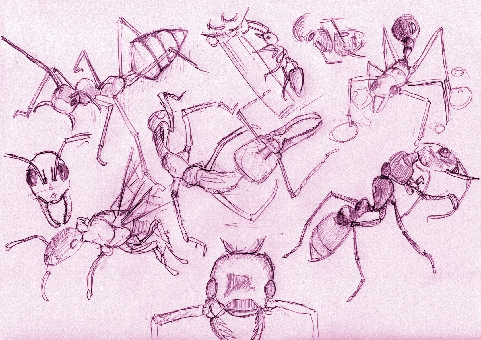 ants sketchs